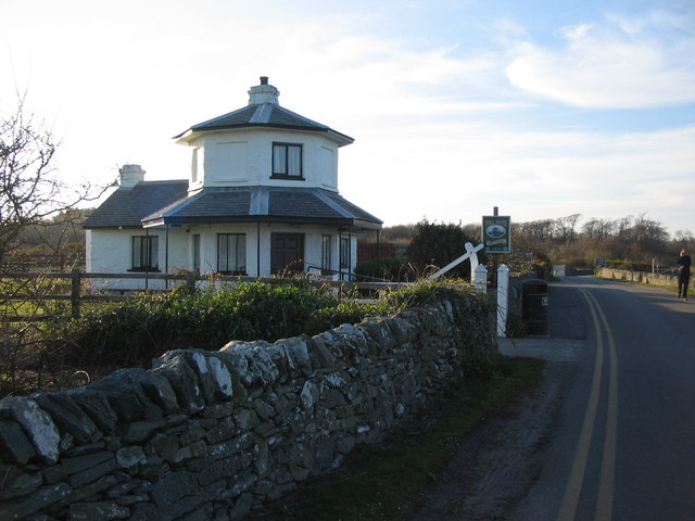 Penrhos Tollhouse A view looking north along the entrance road to Penrhos Country Park. The tollhouse was previously positioned closer to the main road. Full details of its history can be found at the